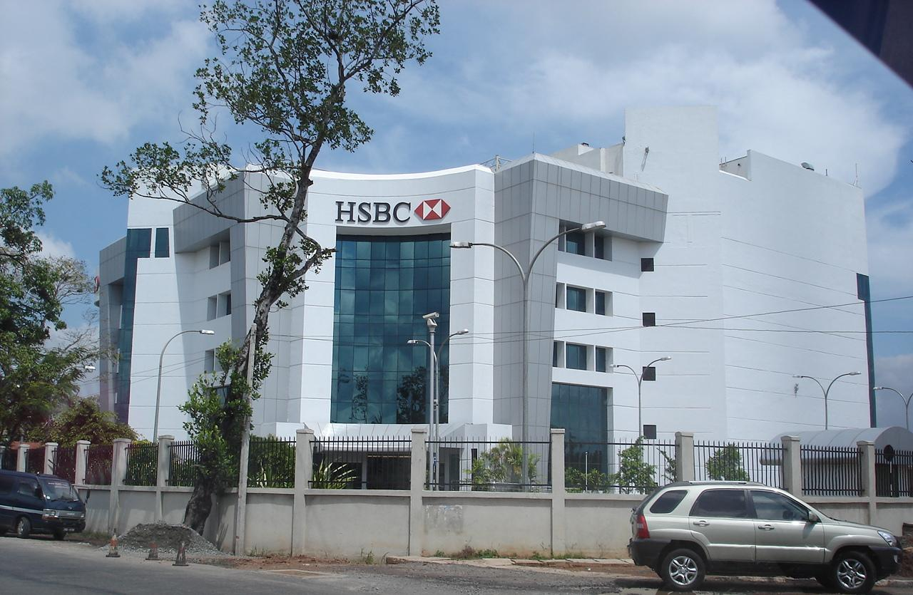 HSBC Group Service Center at Rajagiriya, Sri Lanka.